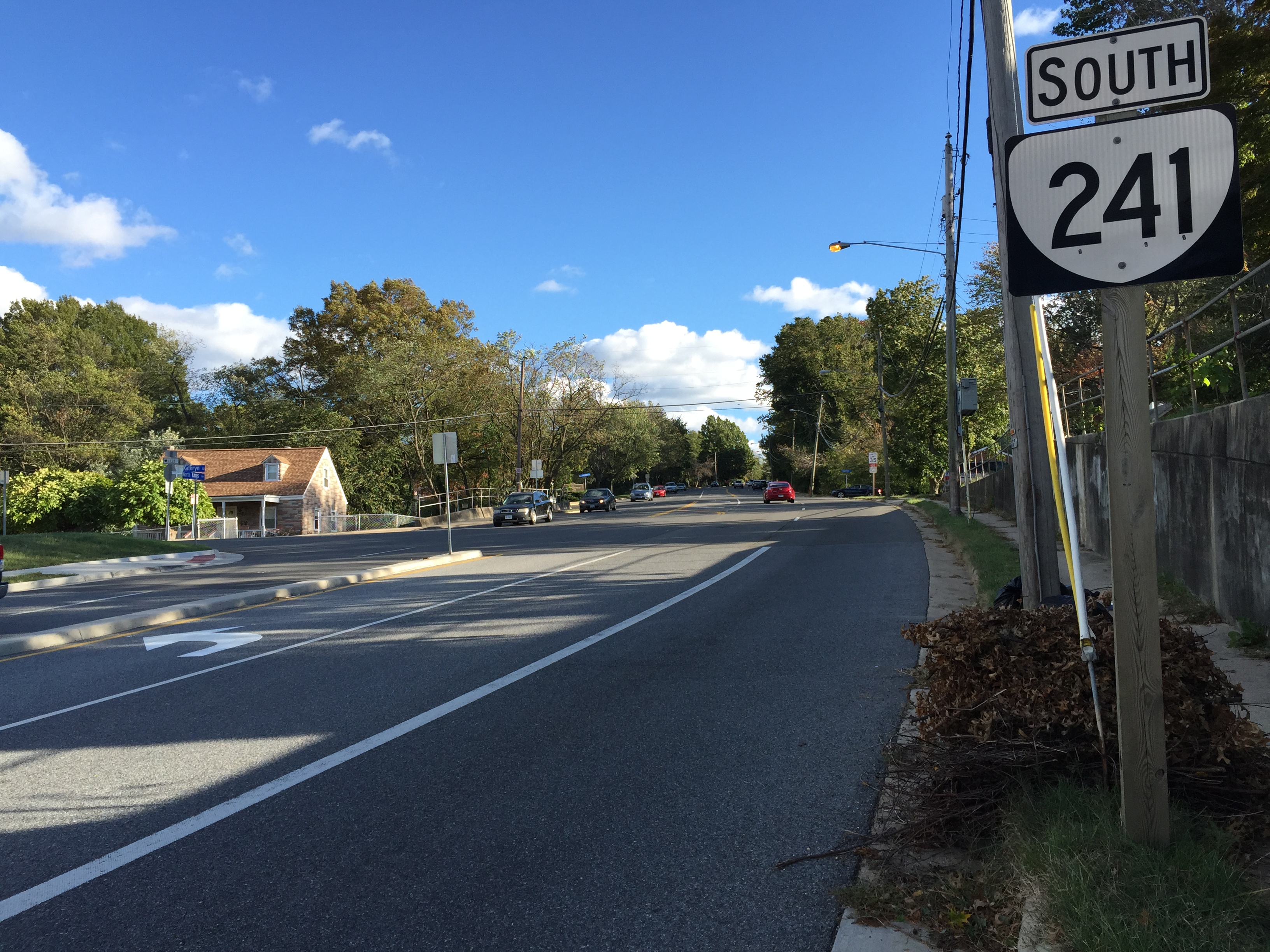 View south along Virginia State Route 241 (Kings Highway) at Kathryn Street in Huntington, Fairfax County, Virginia